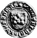 "+S Petri de Gruenenbe[r]g." ("Peter of Grünenberg's seal".) Buckler with six-mountain. Public Records Office Bern.